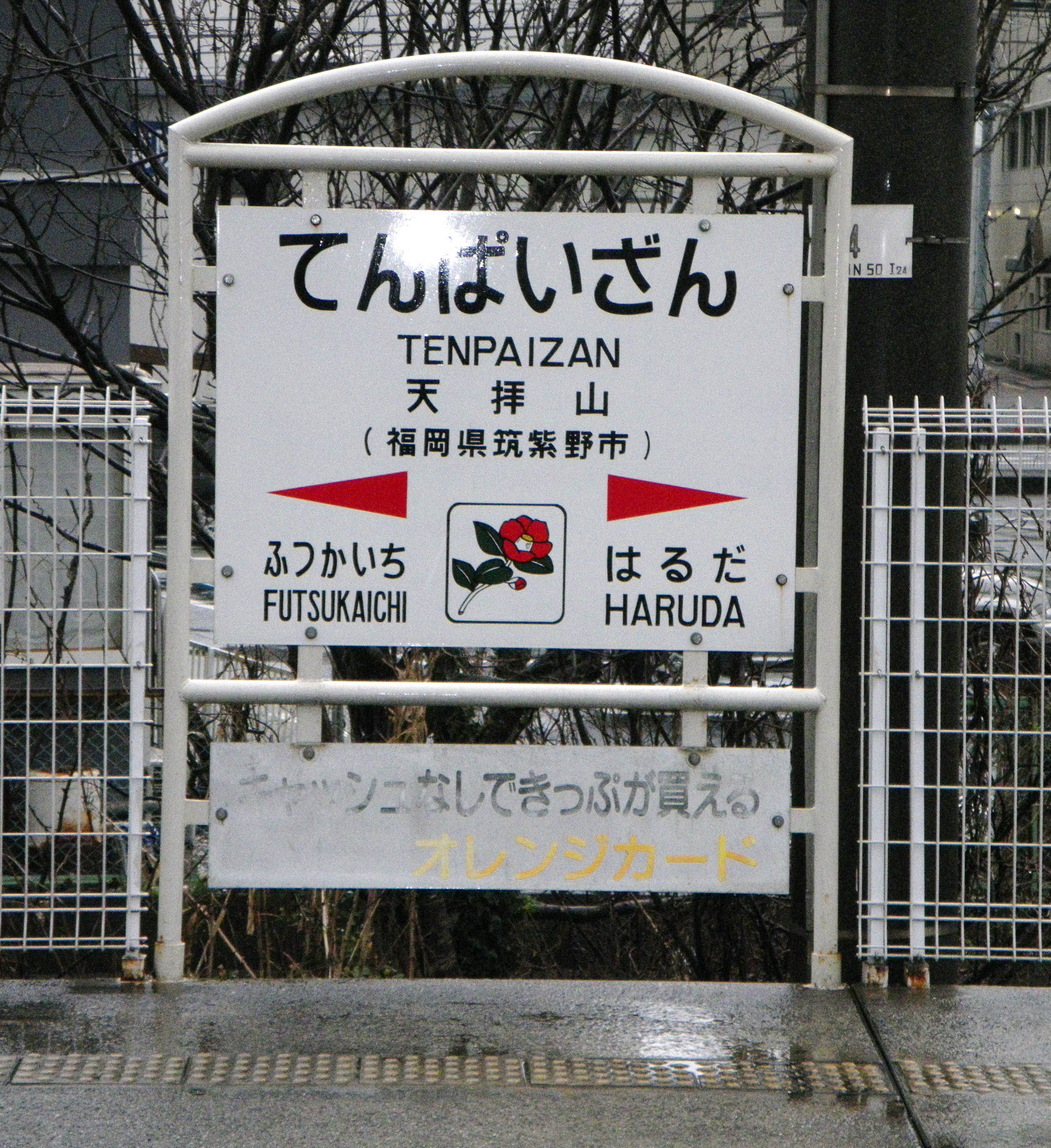 Kyushu Railway Company Kagoshima Main Line Tenpaizan Station, Ritsumyoji, Chikushino City, Fukuoka, Japan